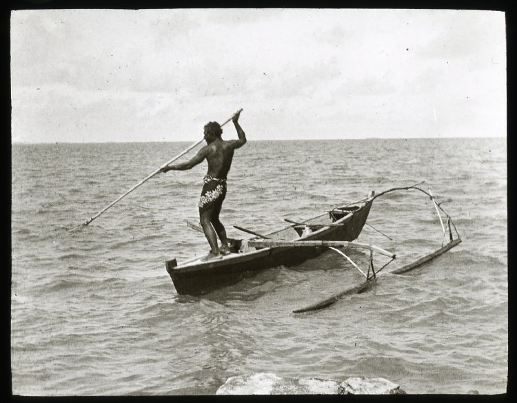 Lantern Slide (black and white); a man spear fishing out at sea, standing on an outrigger canoe; Mangareva, Gambier Islands. Photographic process Context: It is unclear where this image was photographed, and from what island the man is from. It could be either Mangareva or Rapa Iti. Overview of Routledge collection: This collection of lantern slides were photographed during two archaeological expeditions, conducted by William Scoresby Routledge and his wife Katherine Maria Routledge. The majority of the collection was photographed during the ‘Mana Expedition’ in 1913-1915 to Easter Island, which also stopped in Chile and Juan Fernandez Islands on route. Whilst in Chile, Routledge enlisted the aid of Chilean men and boys. One boy from Juan Fernandez is depicted in a number of images, used as a scale guide. Subsequent expeditions to Mangareva, Raivaevae, and Rapa Iti were made in 1921-1923, during which a smaller number of images were made.